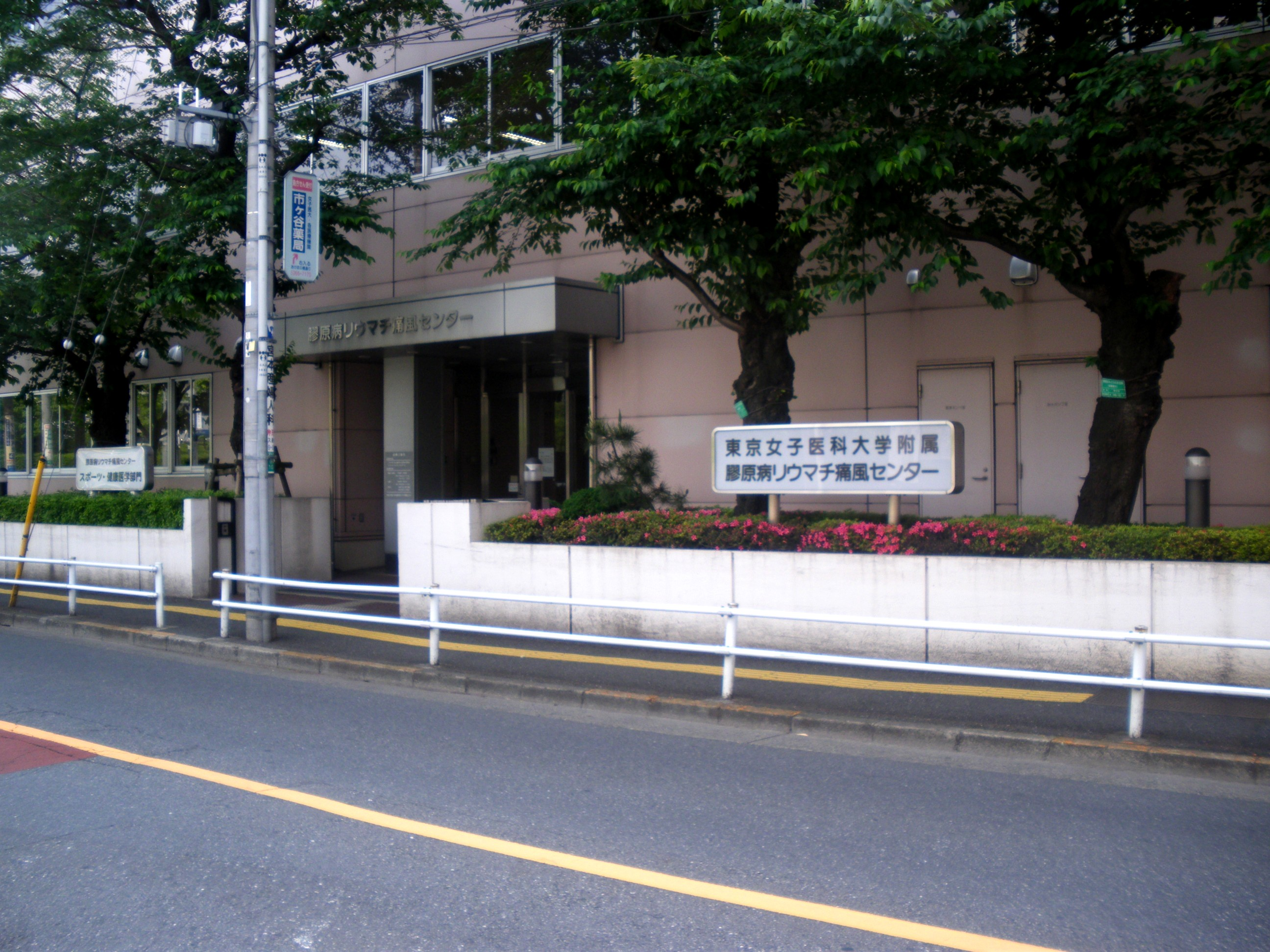 A photo of Institute of Rheumatology Tokyo Women's Medical University,Kawadacho,Shinjuku-ku,Tokyo,Japan.